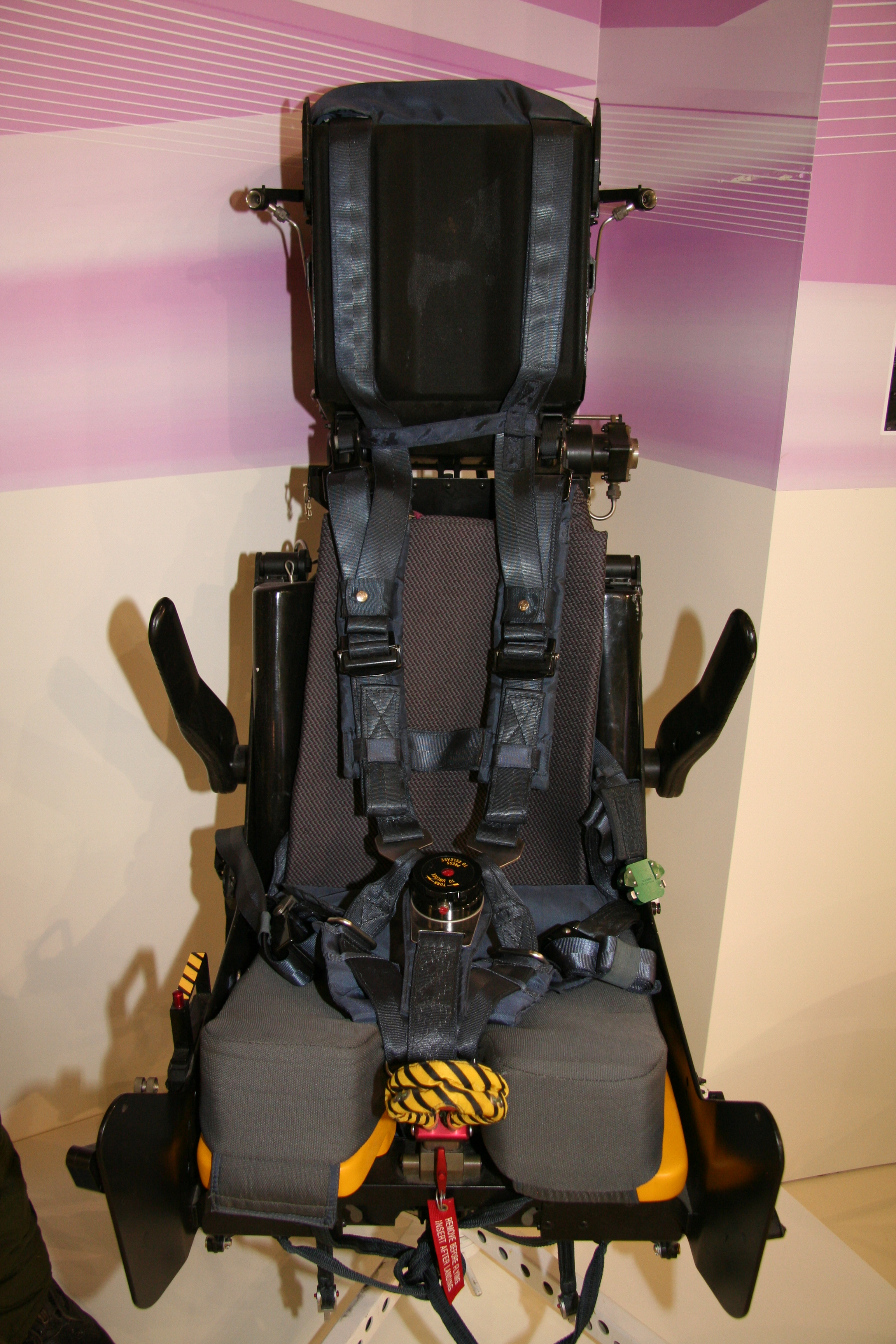 Ejector seat - Paris Air Show 2009